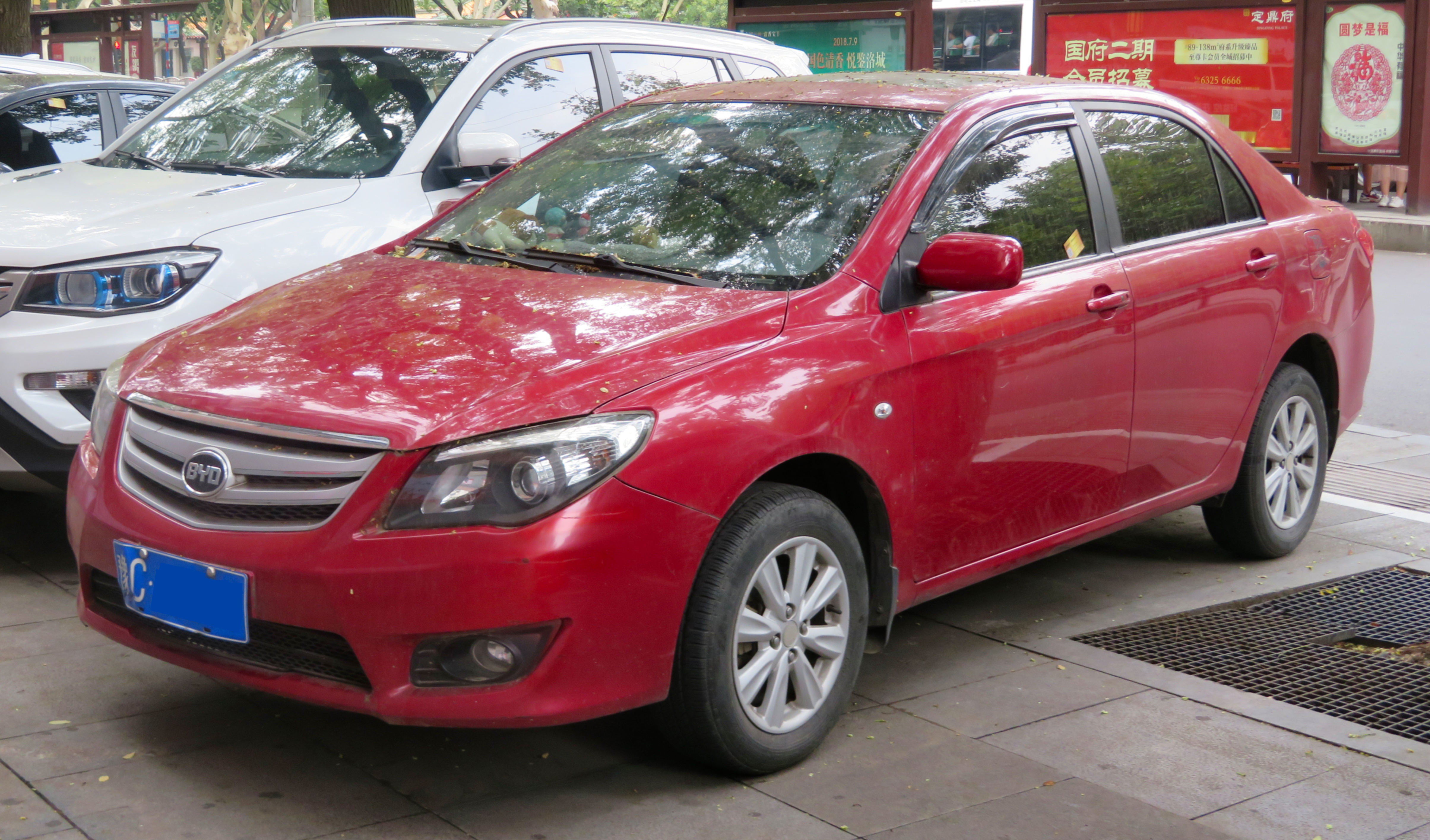 A 2011 BYD L3 photographed in Xigong District, Luoyang, Henan province, China